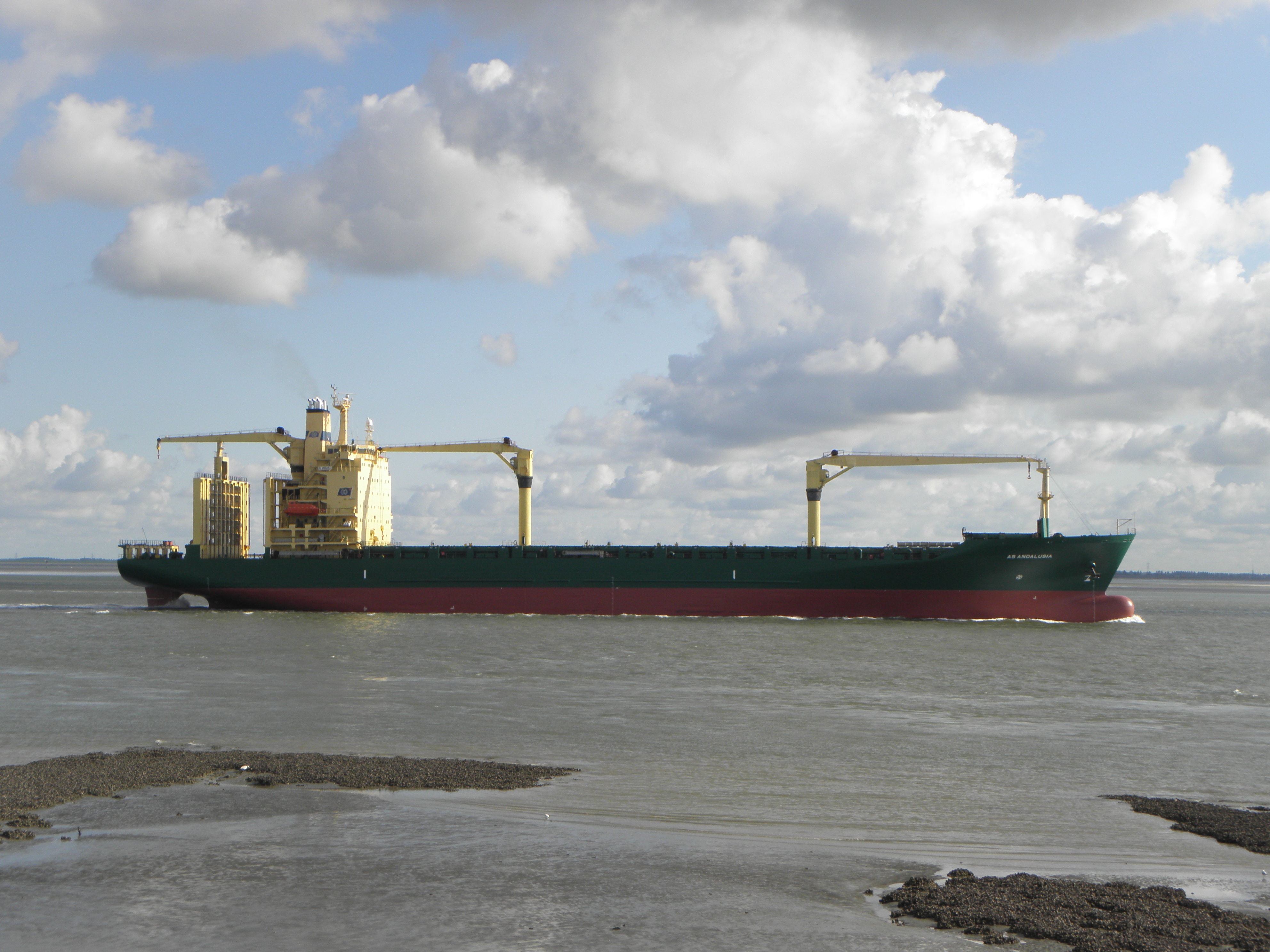 AS Andalusia I.M.O. number 9204984